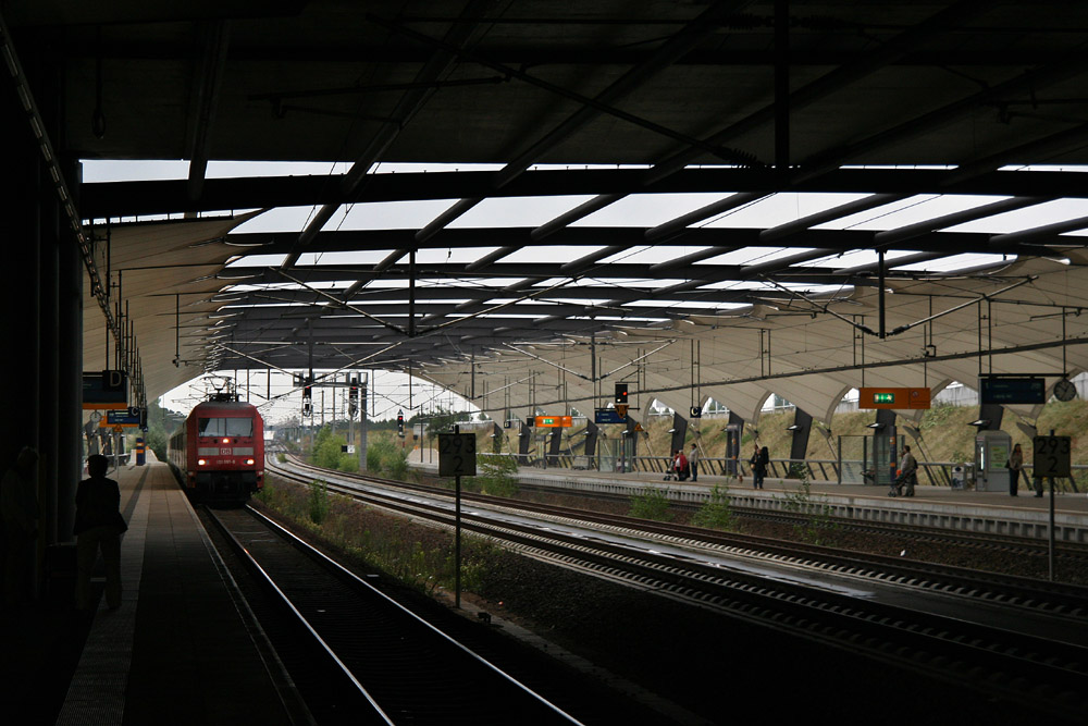 The train station at Leipzig/Halle airport. An Intercity train from Leipzig is about to stop, headed for Halle.